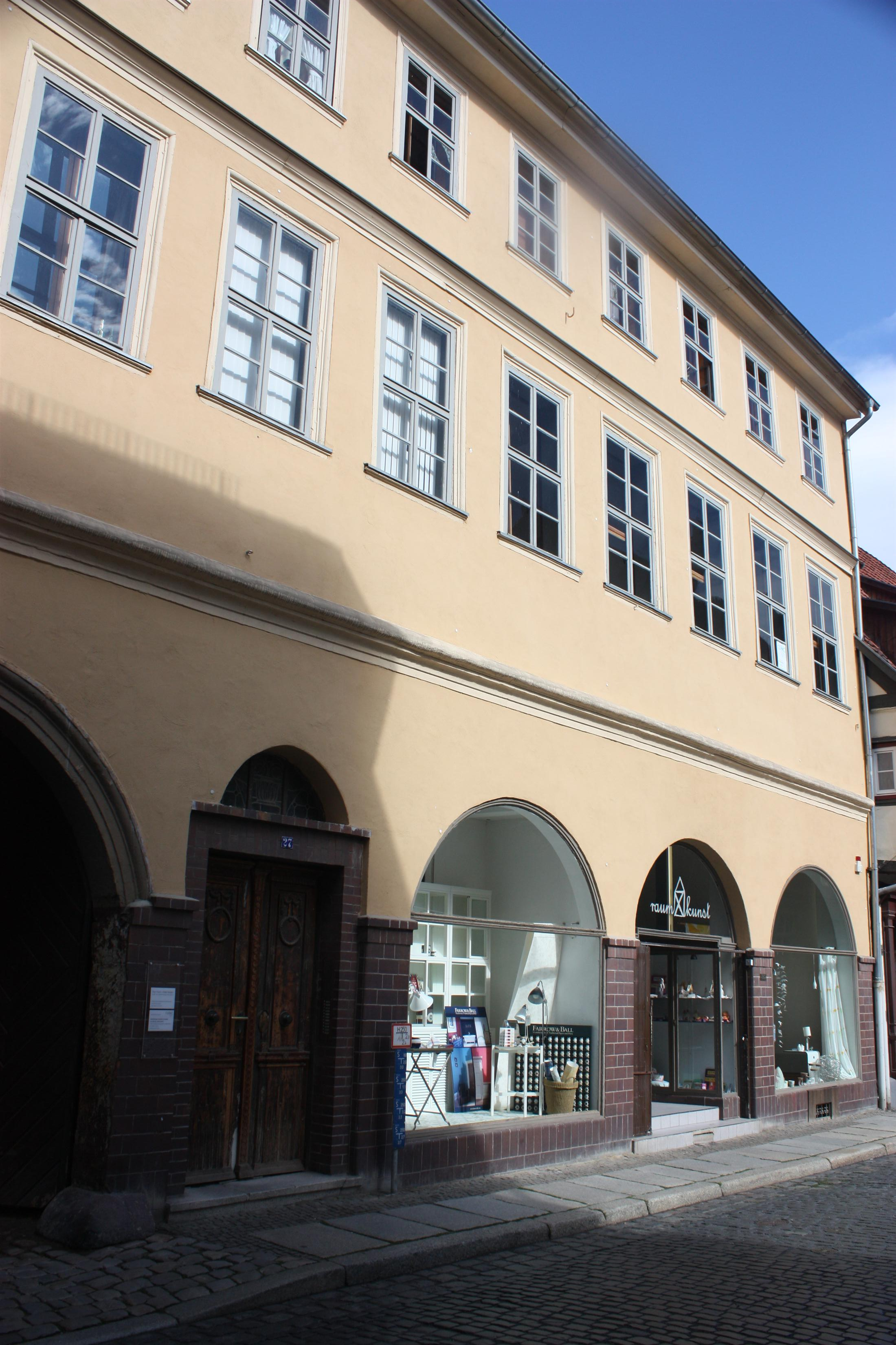 This is a photograph of an architectural monument.It is on the list of cultural monuments of Quedlinburg Hohe Straße 27